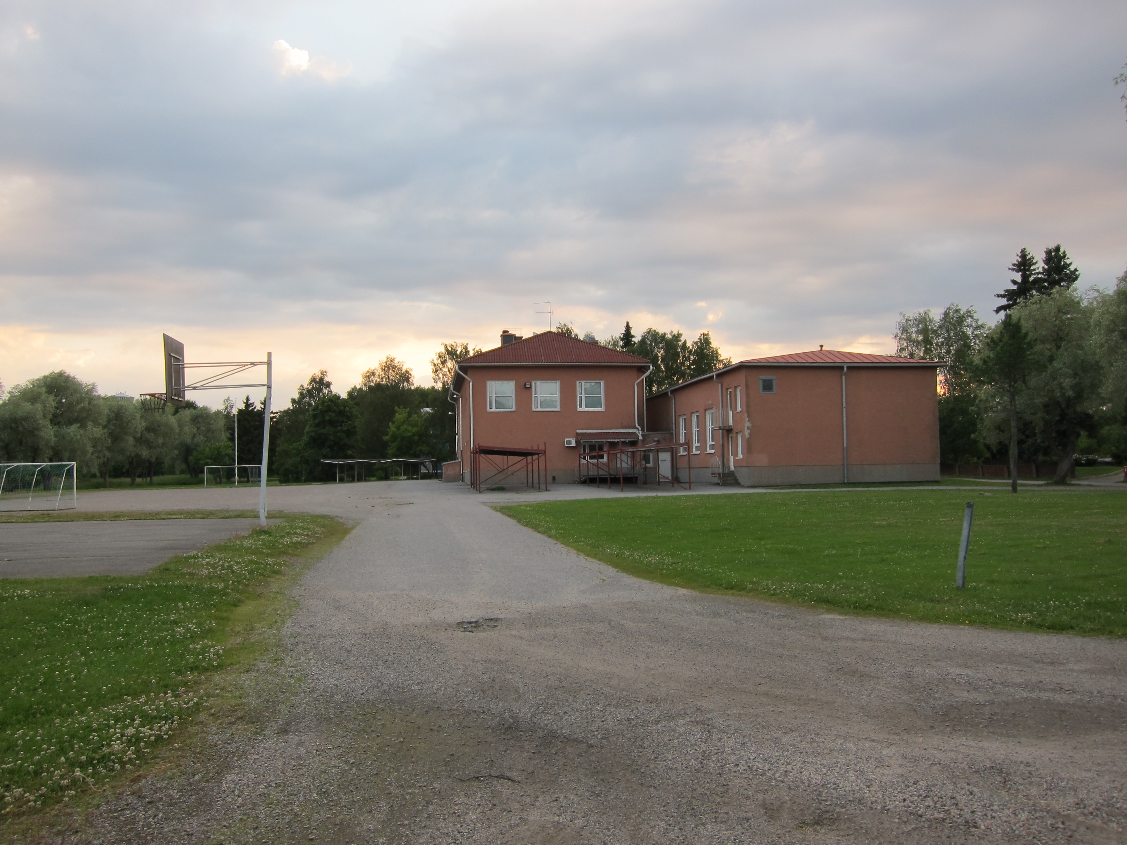 School of Tahvio, district of Nuorikkala, city of Raisio, Finland.